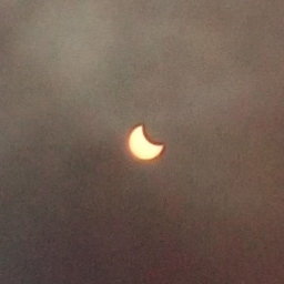 Partial solar eclipse of August 11, 2018 in Baley,_Russia. Taken with two folded X-ray photos.